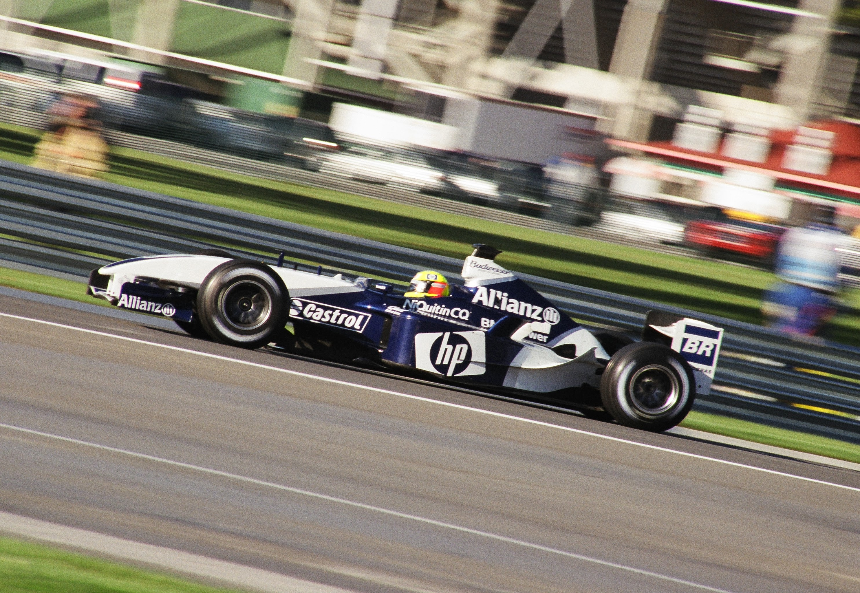 Ralf Schumacher driving for the WilliamsF1 team, Indianapolis, 2003